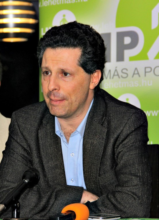 András Schiffer (born 19 June 1971 in Budapest) is a Hungarian lawyer and former politician, who served as co-President of the Politics Can Be Different and leader of its parliamentary group. Schiffer announced his retirement from politics on 31 May 2016.